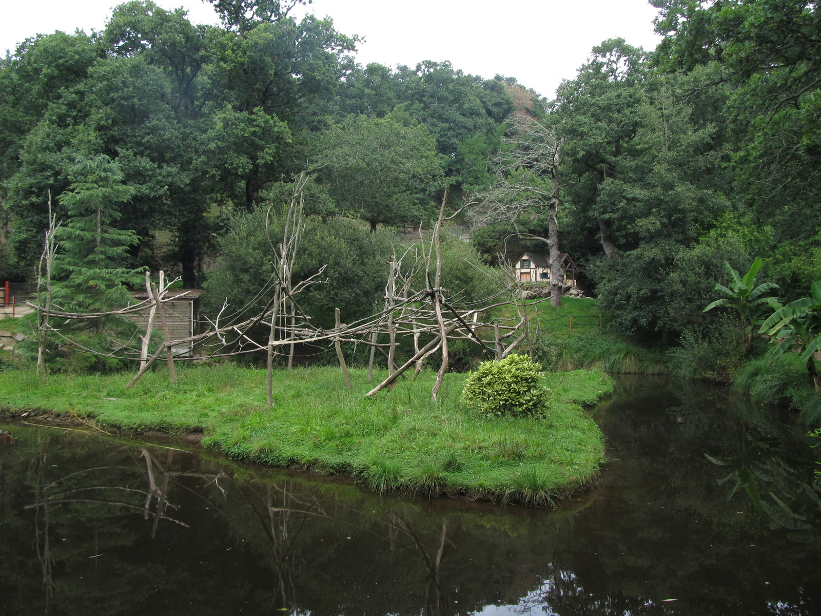 Pont-Scorff Zoo